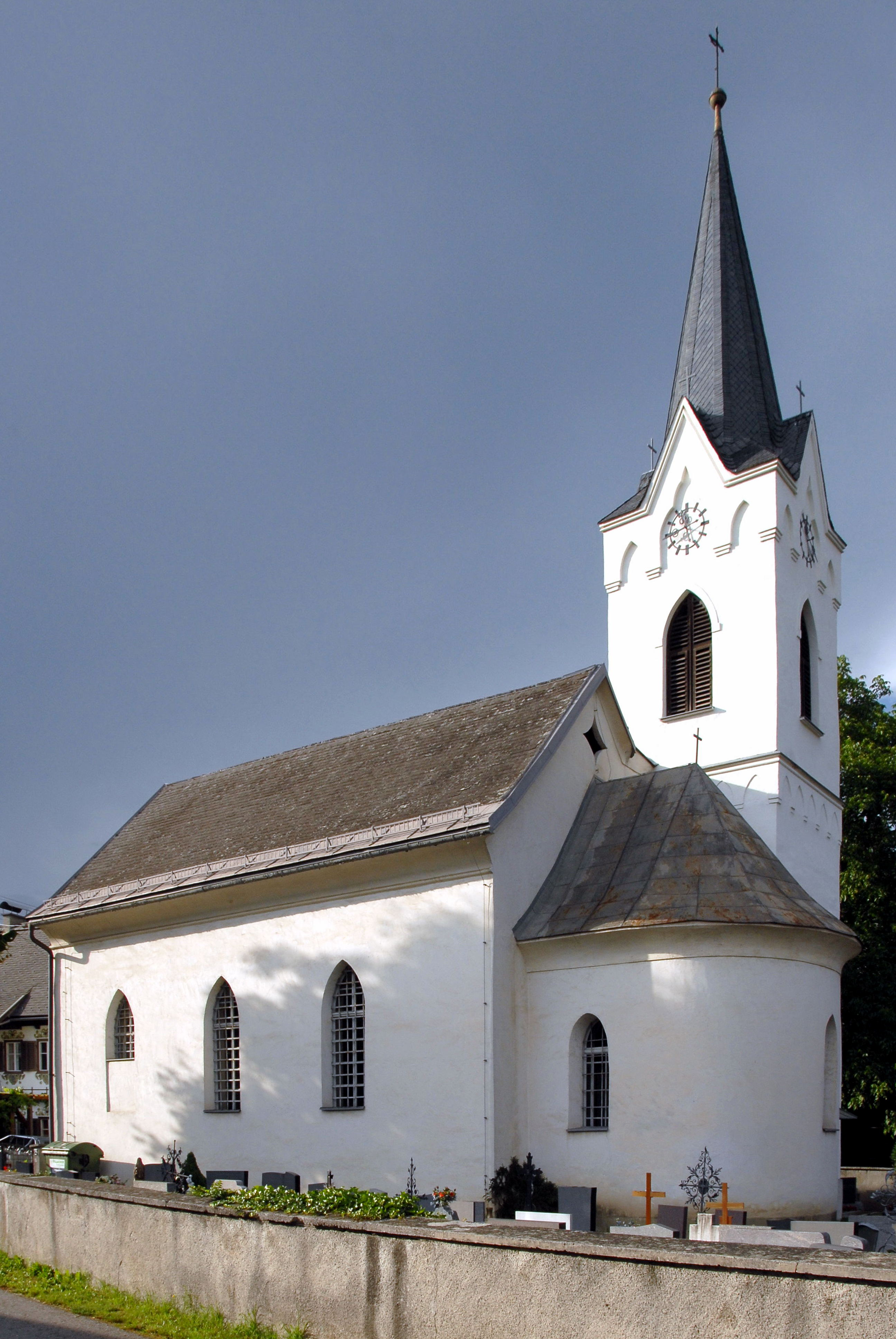 Parish church "Saint Nicholas" located at Sankt Niklas, city of Villach, Carinthia / Austria / EU